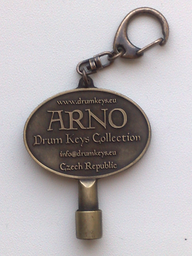 My own drum key with link and e-mail address to my collection of drum keys